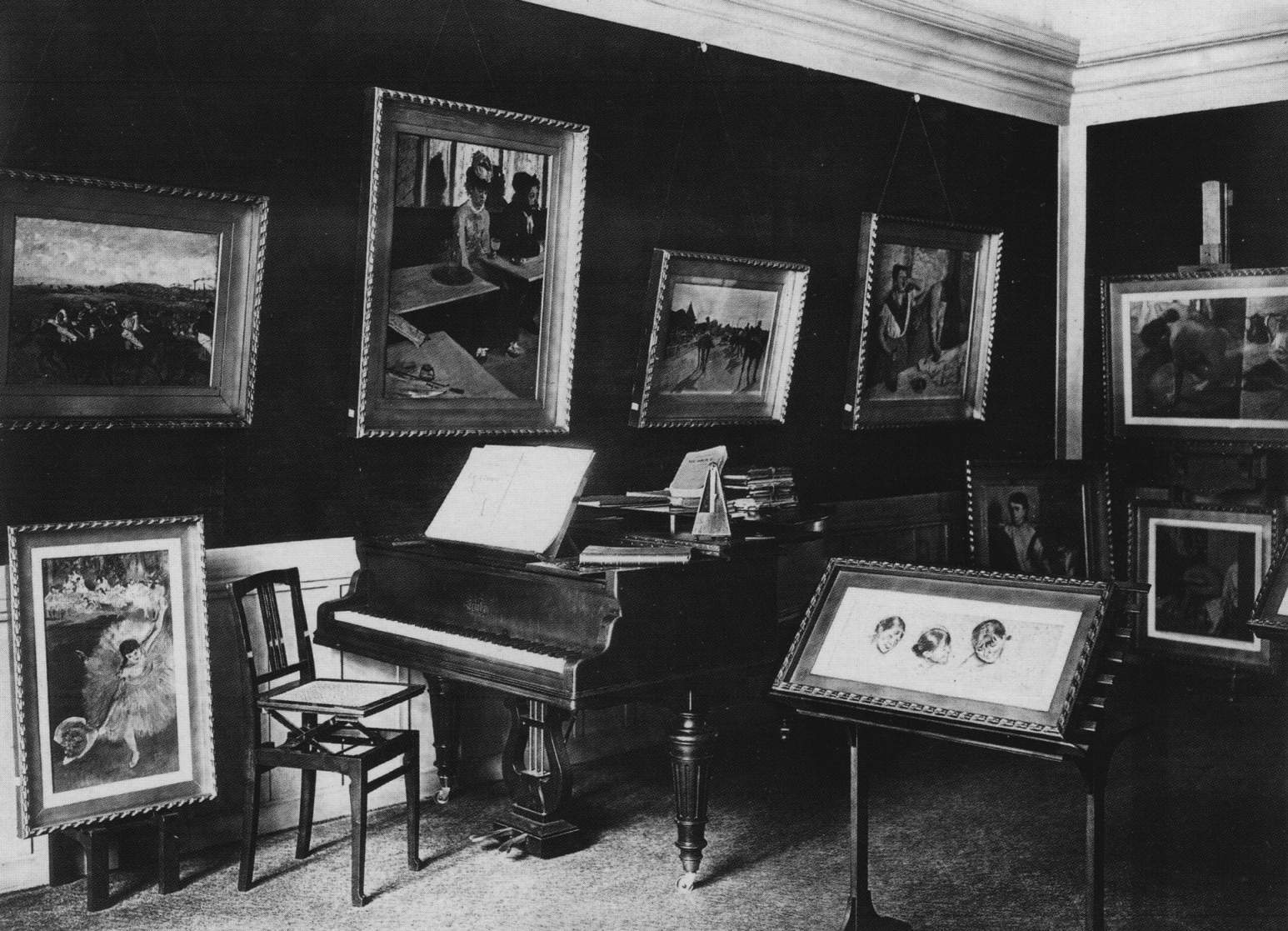 The Degas Room of Comte Isaac de Camondo in his Apartment at Avenue des Champs-Élysées No. 82 (c. 1910). The paintings are all from Edgar Degas, today in the Musée d'Orsay.